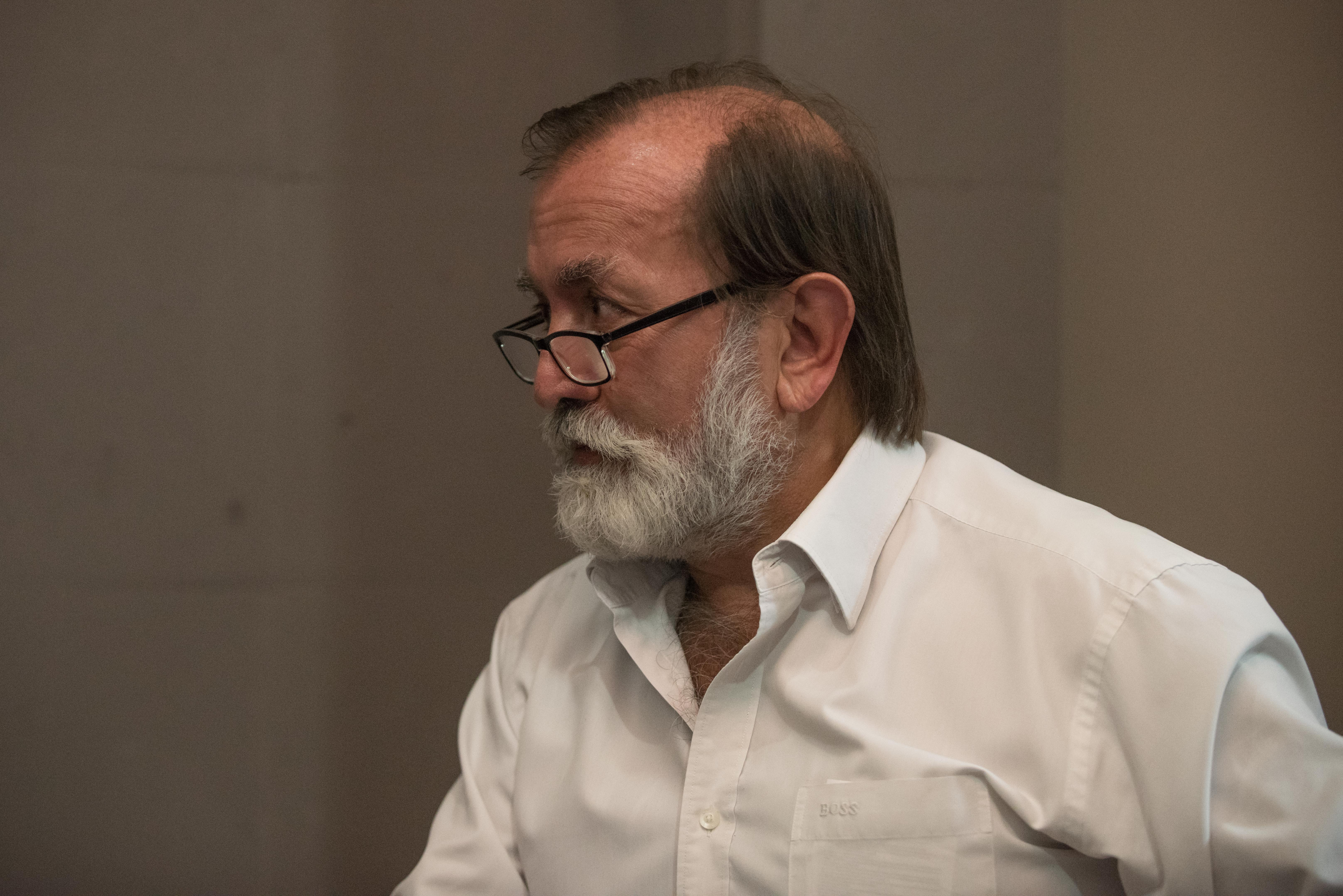 Epigmenio Ibarra is not only an old school mexican journalist and producer, he is also a Human Rights activist and a very active Twitter user.